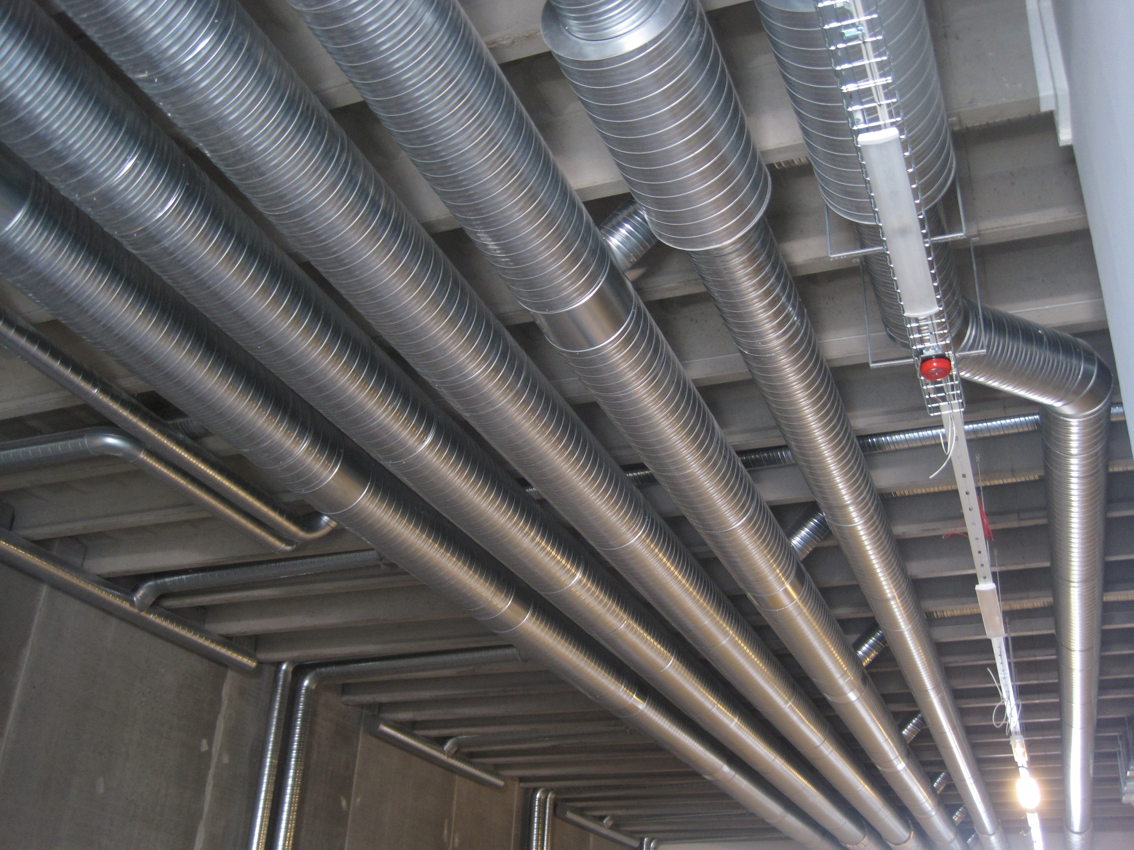 Part of a ventilation system in an archival repository at Arkivcentrum Syd in Lund, Sweden.